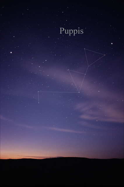 Photography of the constellation Puppis, the stern